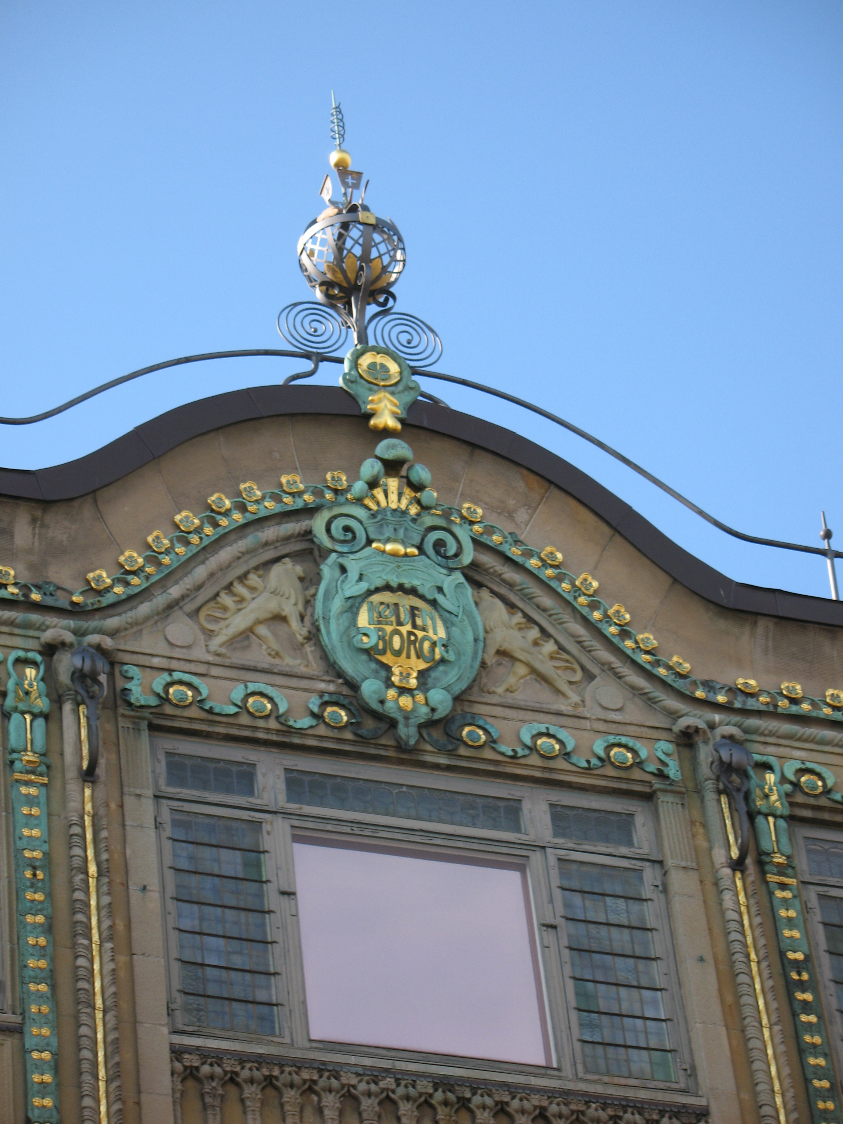 Detail from the facade of Løvenborg (Hotel Savoy) on Vesterbrogade in Copenhagen, Denmark